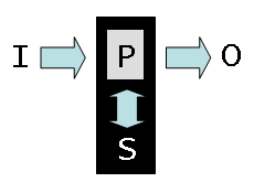 The IPO+S Model is a generally accepted convention in the field of Information Systems and this graphic is an interpretation of the concept.